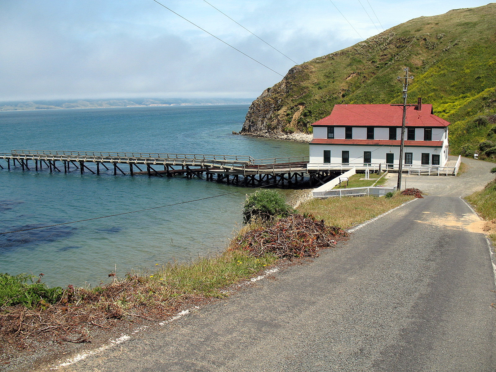 National Register of Historic Places in Marin County, California. Point Reyes Lifeboat Rescue Station, Drake's Bay, Point Reyes National Seashore, Inverness, CA. Photographed from the roadway leading down to the station off of Chimney Rock Rd.